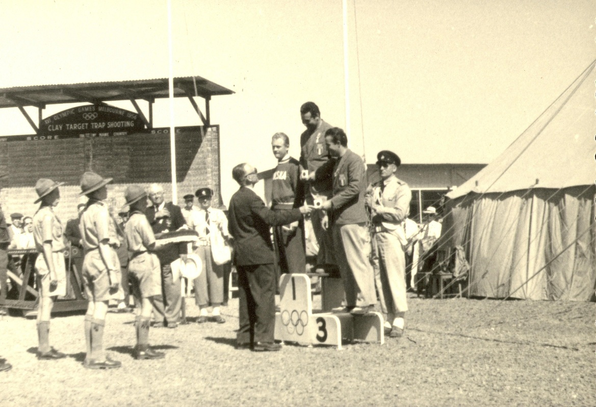 Alessandro Ciceri Bronze Medal, In Skeet Shooting, At The 1956 Olympic Games